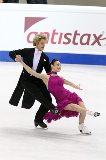 Meryl Davis and Charlie White at the the 2010 World Championships.Compulsory dances - Golden Waltz